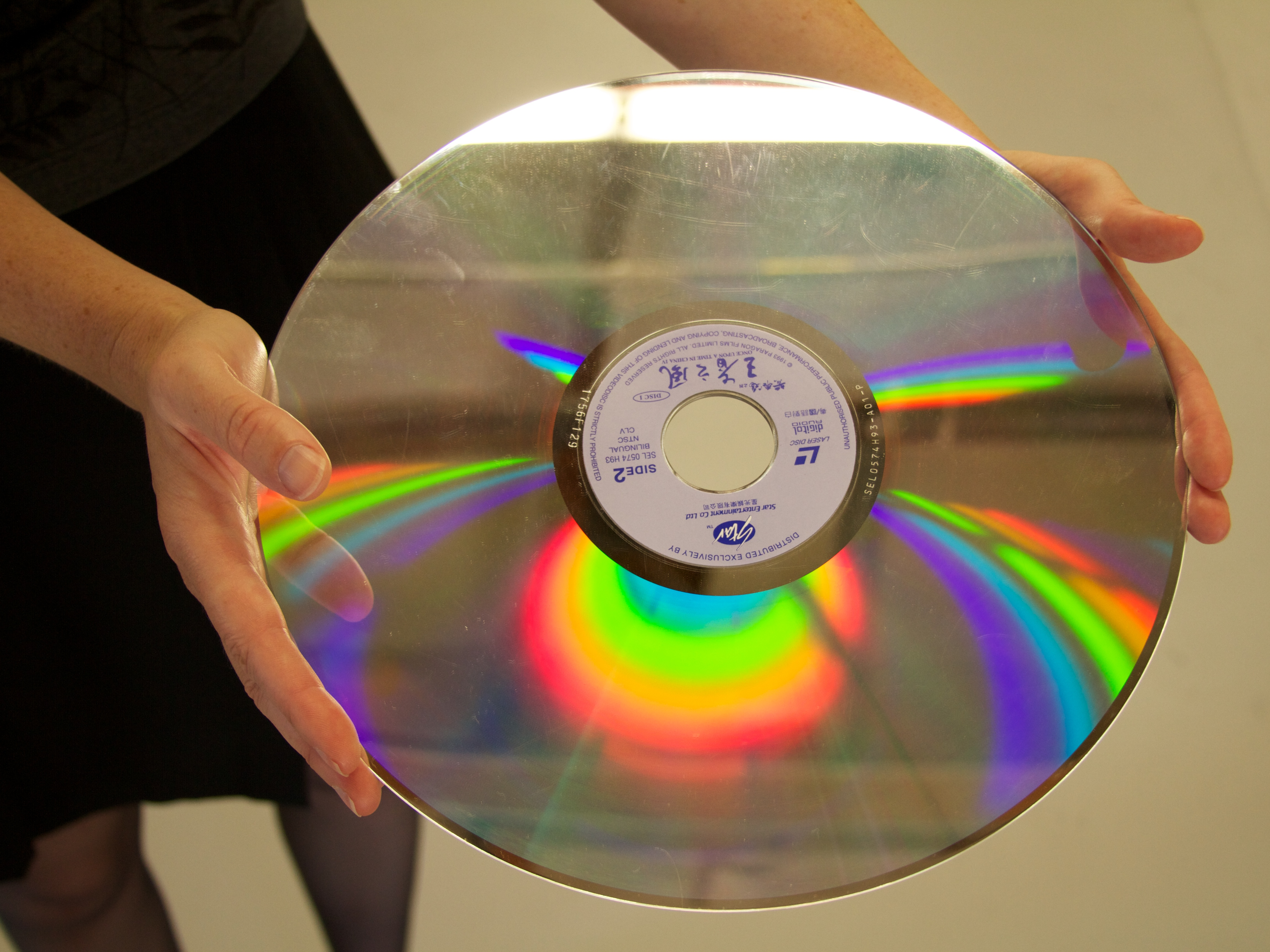 12 inch LaserDisc being held by a woman, giving an idea of the size of the disc itself.